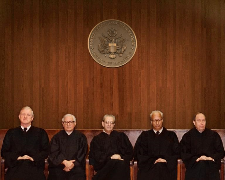 District of Minnesota, United States Bankruptcy Court judges (1970 – 1982): (l to r): John J. Connelly, Kenneth G. Owens, Jacob Dim, Patrick J. McNulty and Hartley Nordin Other information Official U.S. Government photograph of District of Minnesota, United States Bankruptcy Court judges (1970 – 1982): (l to r): John J. Connelly, Kenneth G. Owens, Jacob Dim, Patrick J. McNulty and Hartley Nordin